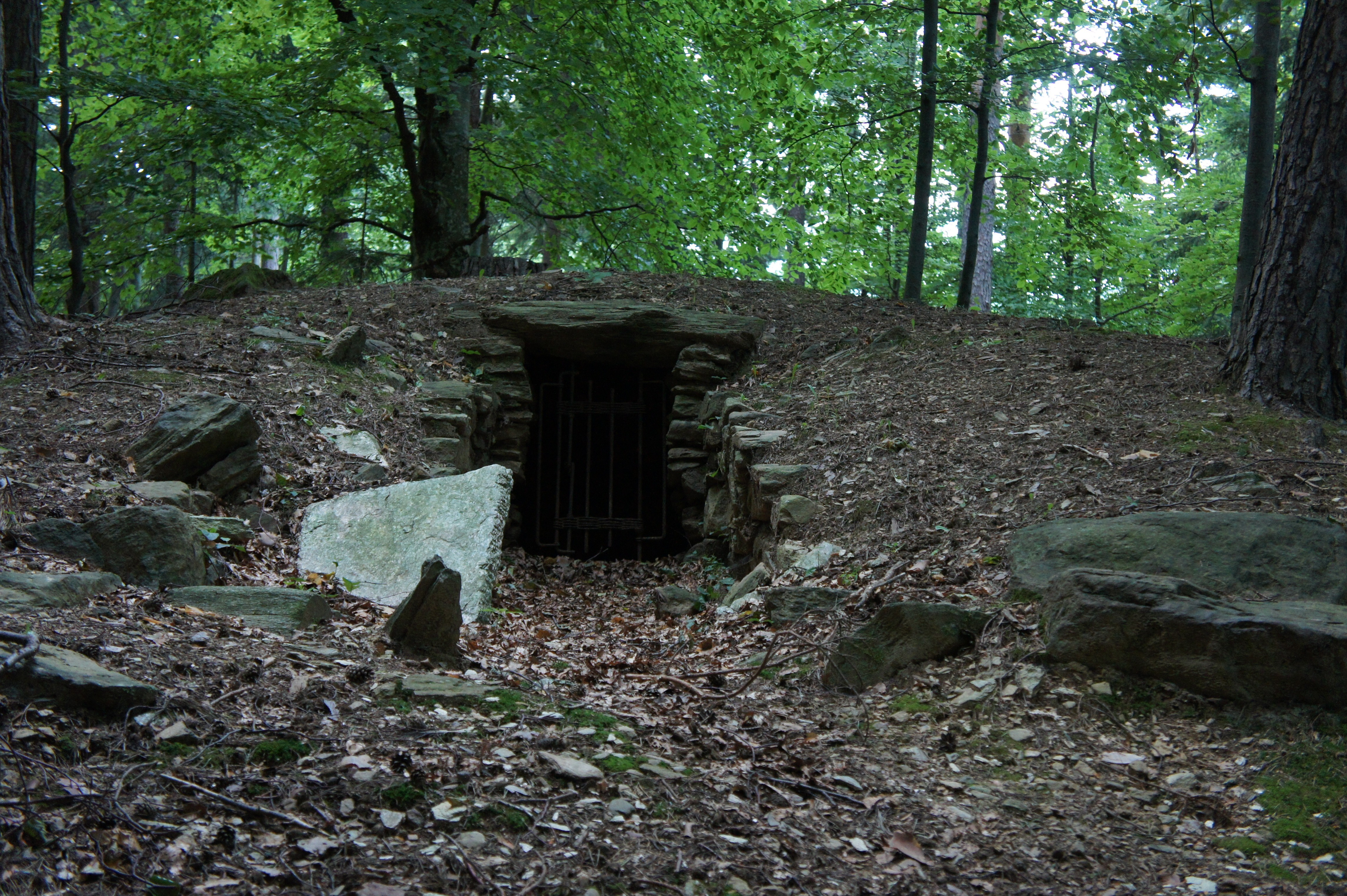 Roman barrow, Stubenberg, Austria